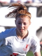 Nolan playing, her Freshman year, in the 2015 America East Final.